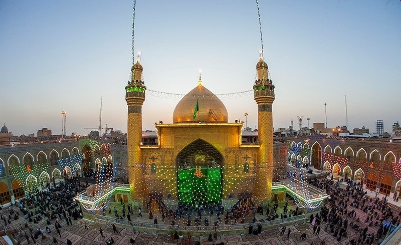 Imam Ali shrine on May 1, 2015 decorated for his birth anniversary as 13th Rajab. main album